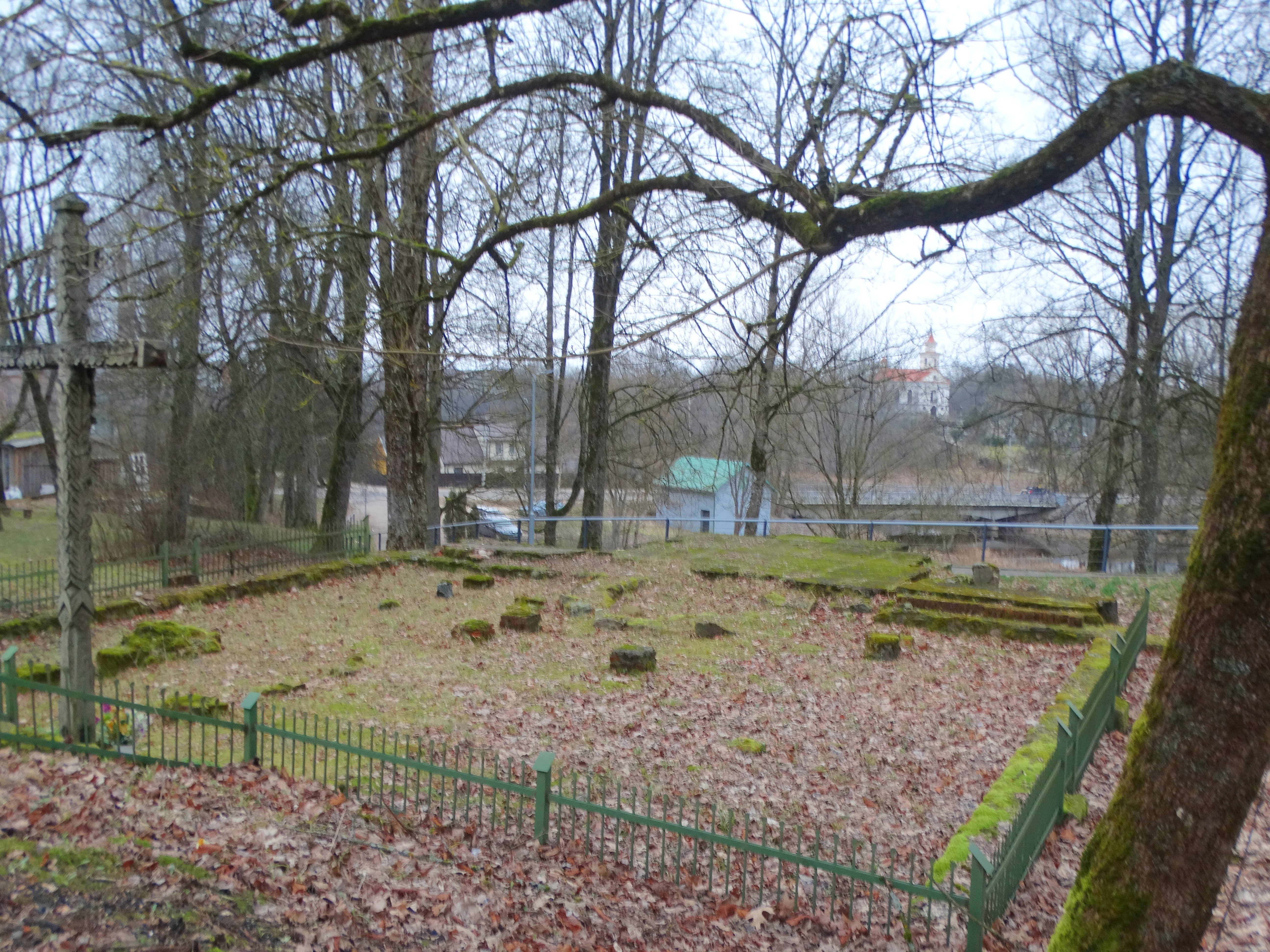 Foundation of the ruined Lourdes Chapel, Plungė, Lithuania